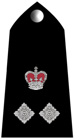 A variant of a uniform eppaulette used to denote the rank of Chief Superintendent in British Police forces between 1949- 1974.